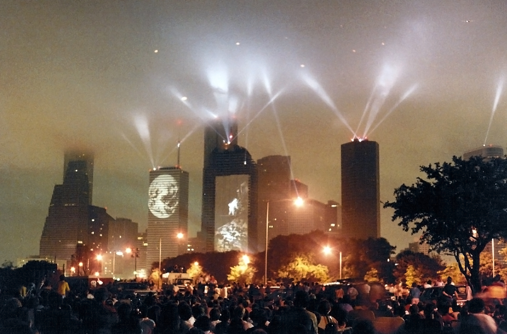 In 1986 the musician Jean-Michel Jarre did two concerts that used cities as their sets. This is one photograph from the Houston show. All of downtown was closed for this event. More than 1 million people attended.